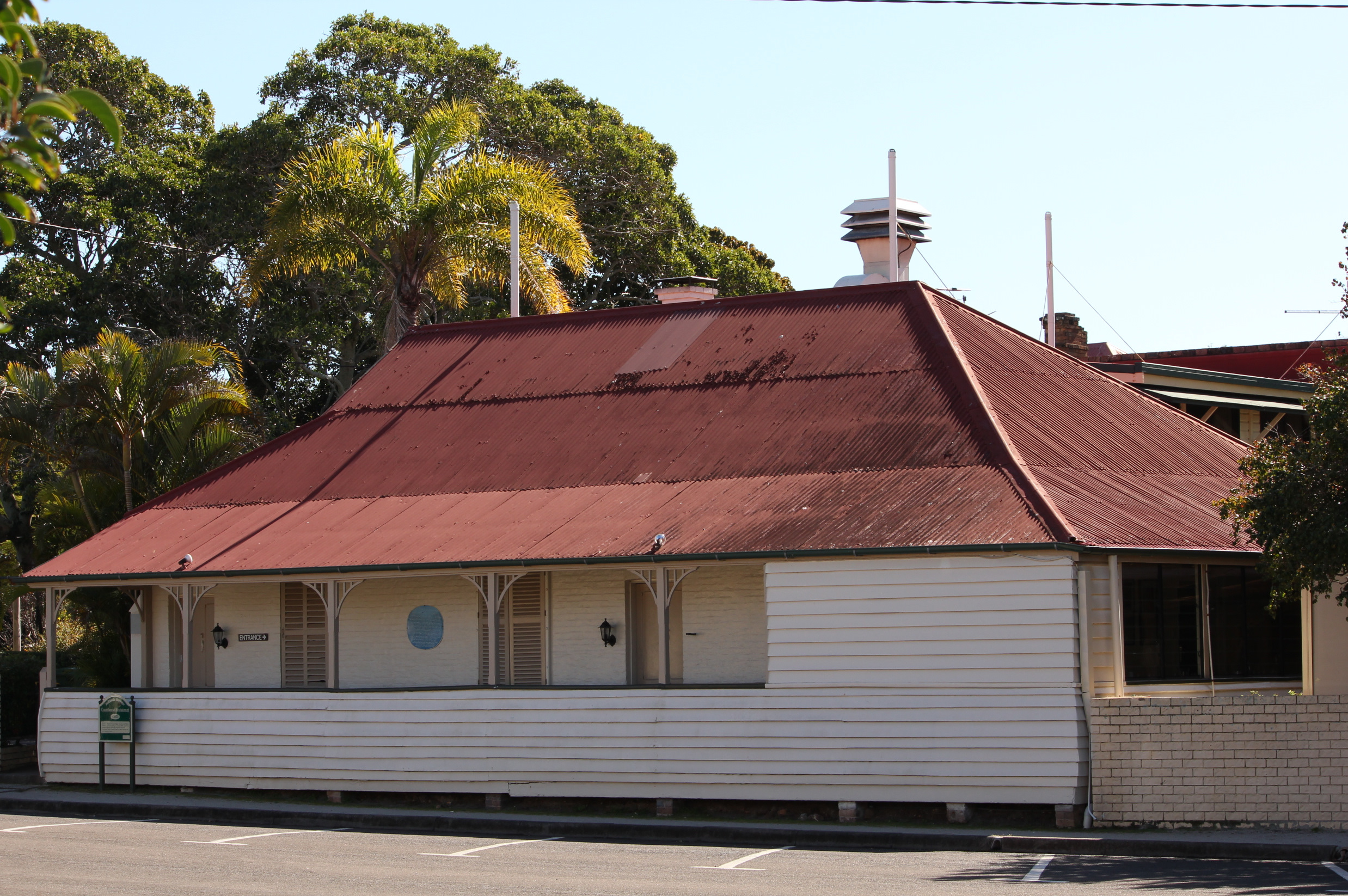 Old Courthouse located on Paxton Street in Cleveland, Queensland built in 1853. Now used as a restaurant.